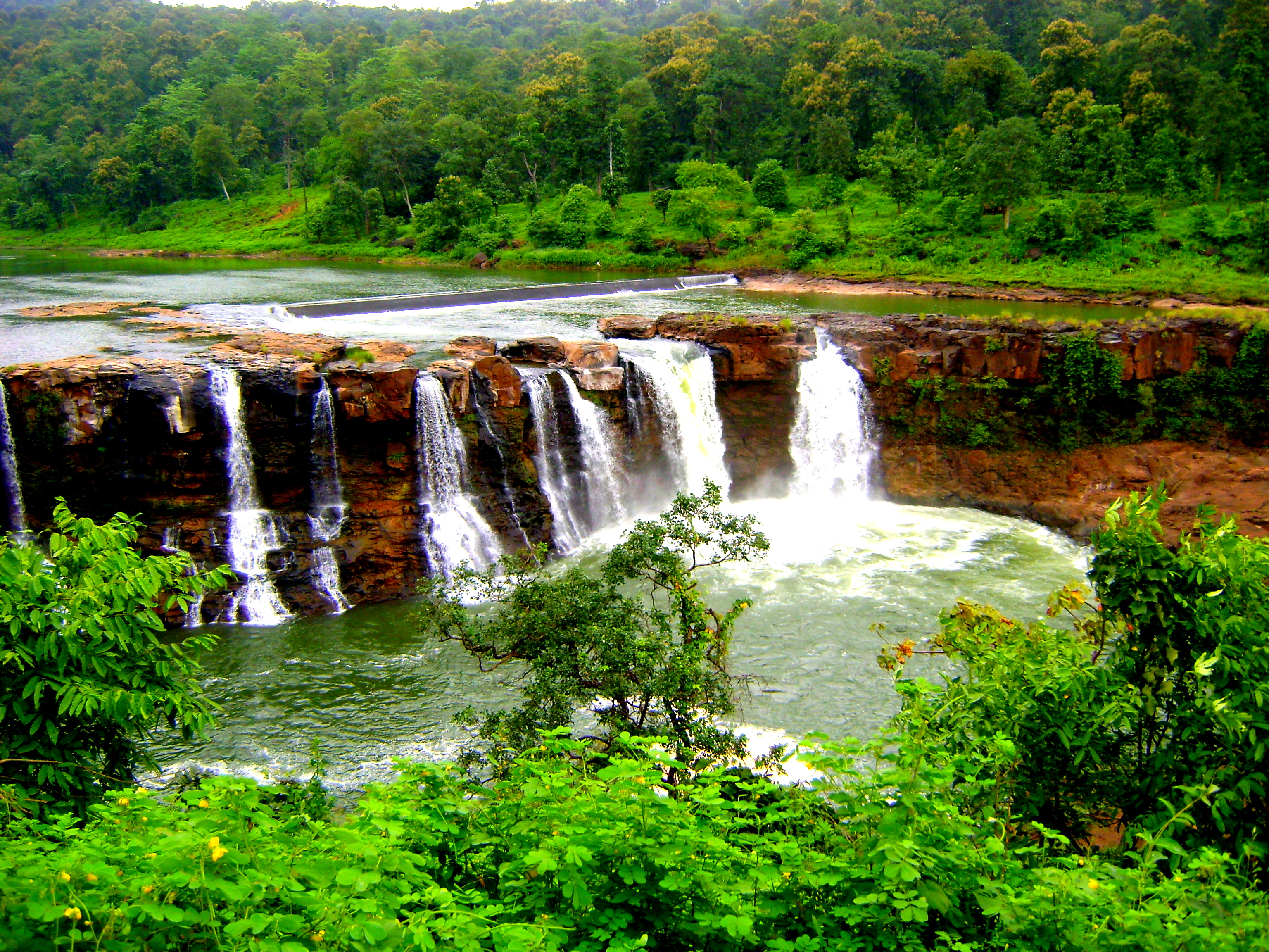 photo taken by JB Kalola during the royal enfield ride at Gira water fall at saputara (Gujarat,India)